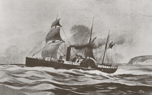 SS Brother Jonathan, a paddle steamer in 1862